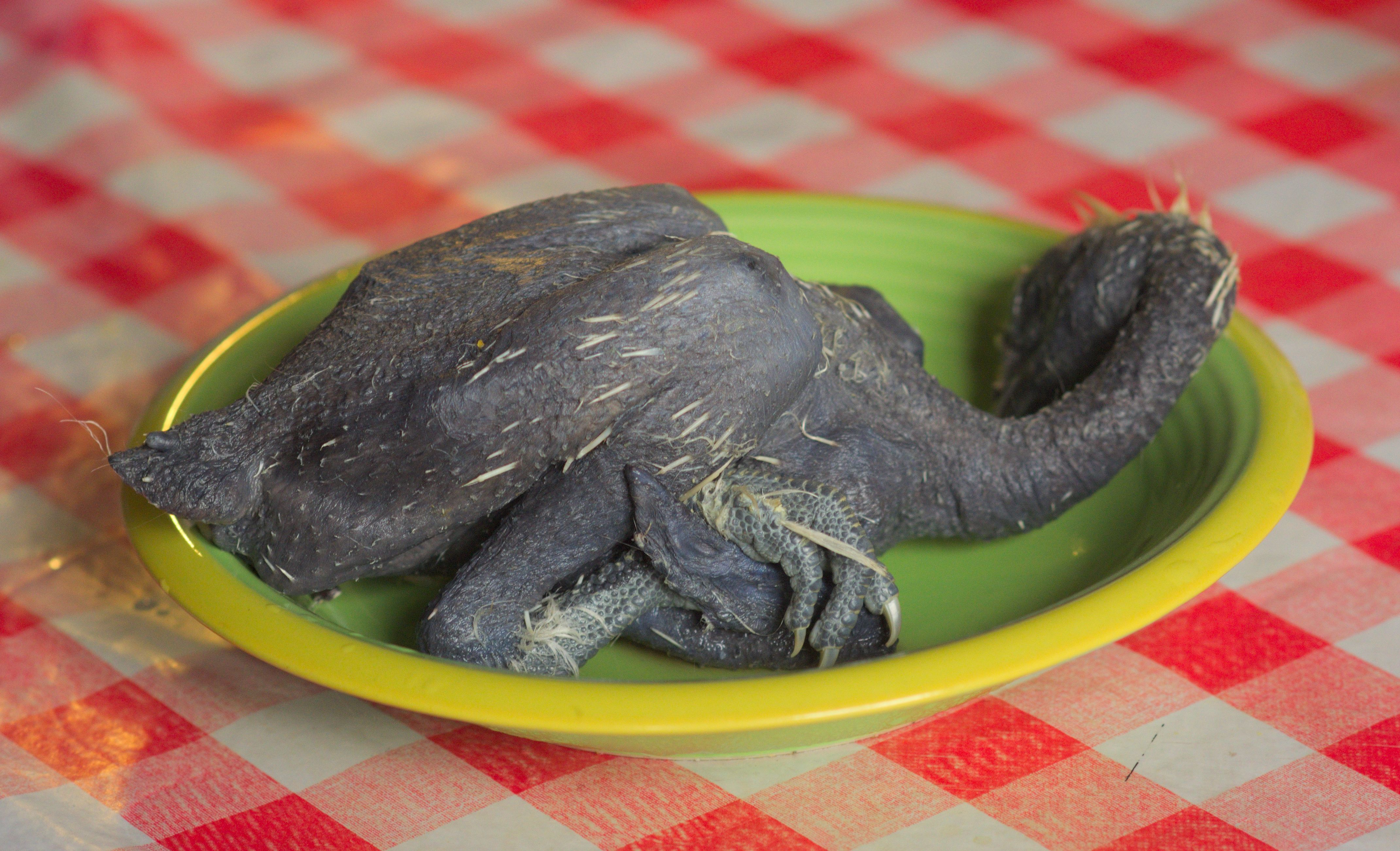 Chinese silkie